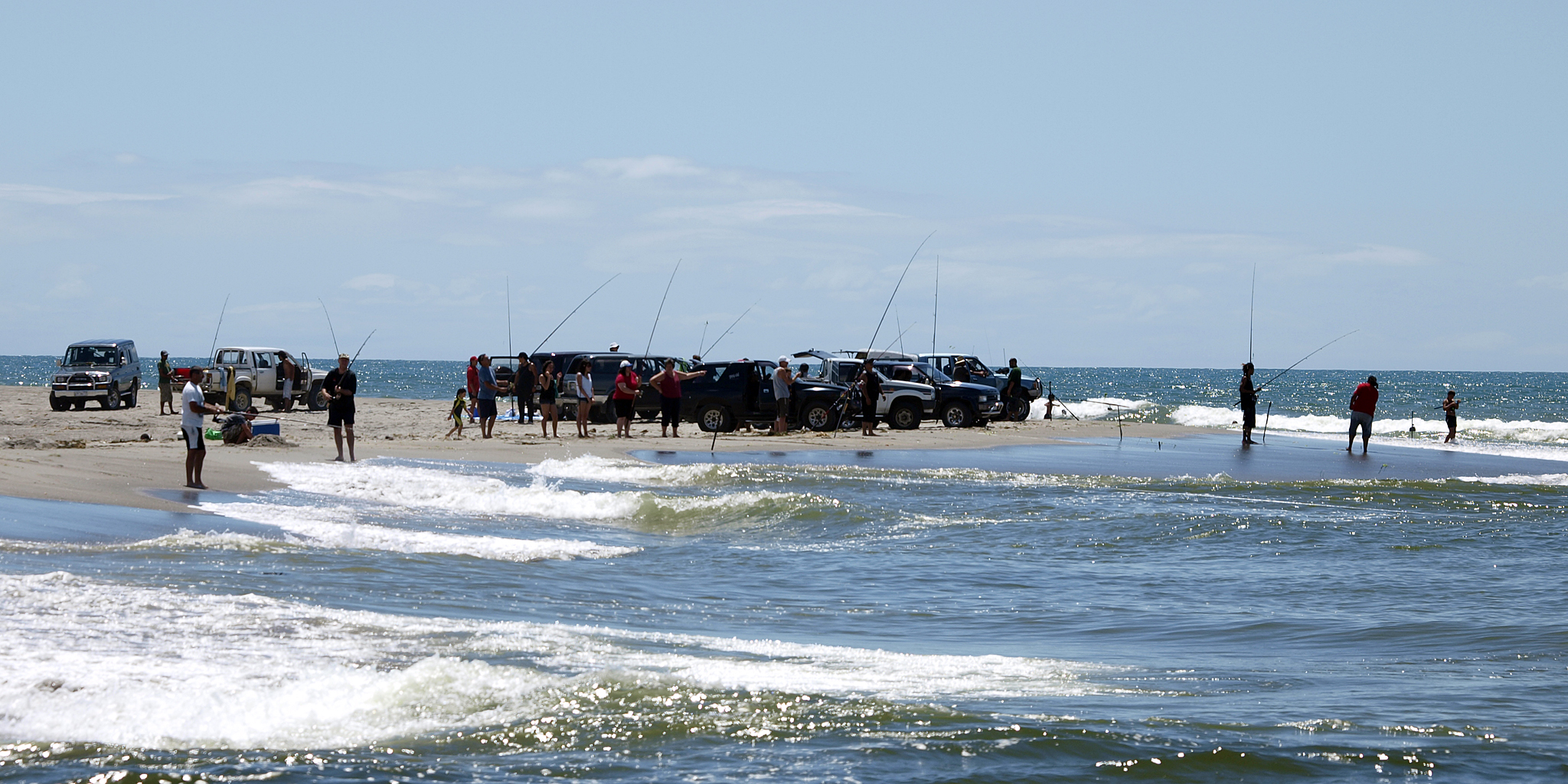 Rangitaiki River, Bay of Plenty, New Zealand, sea trout fishing at the river mouth